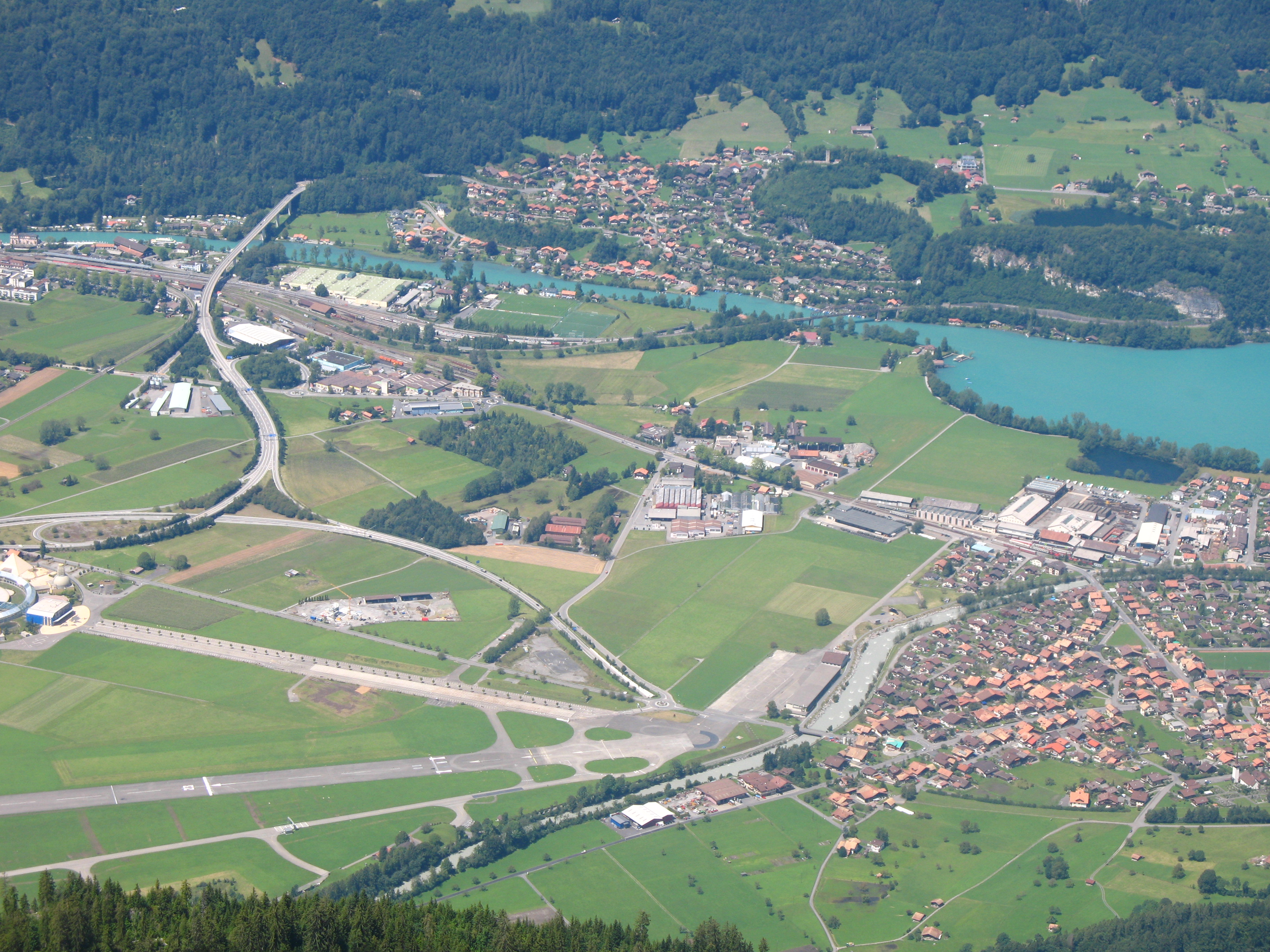 Interlaken Ost, Bönigen, and Goldswil viewed from Schynige Platte, Switzerland